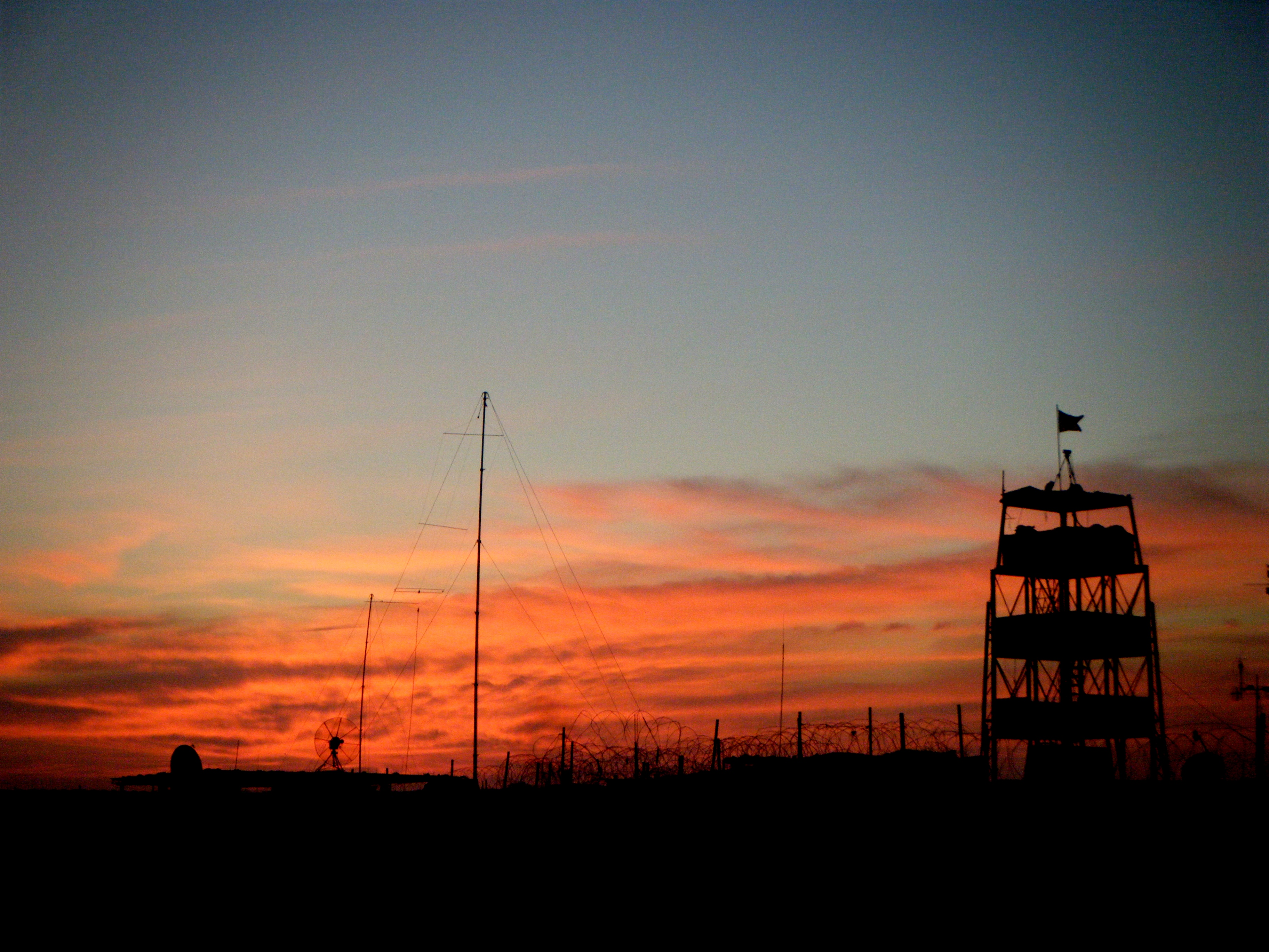 The Super-Sangar at FOB Price, Gereshk, Afghanistan taken in 2013